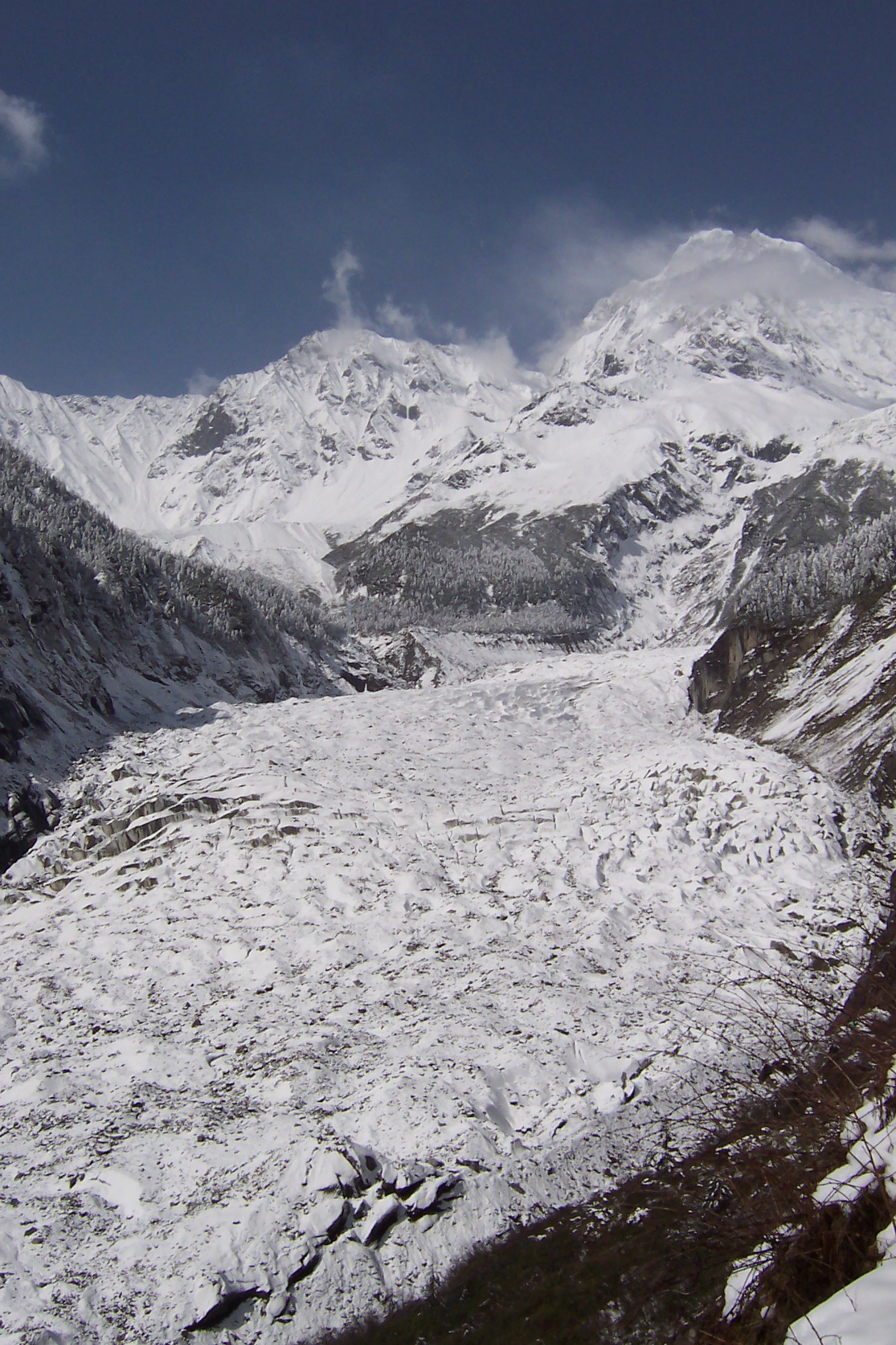 Hailuogou glacier in Sichuan province, China just below Gonga Shan